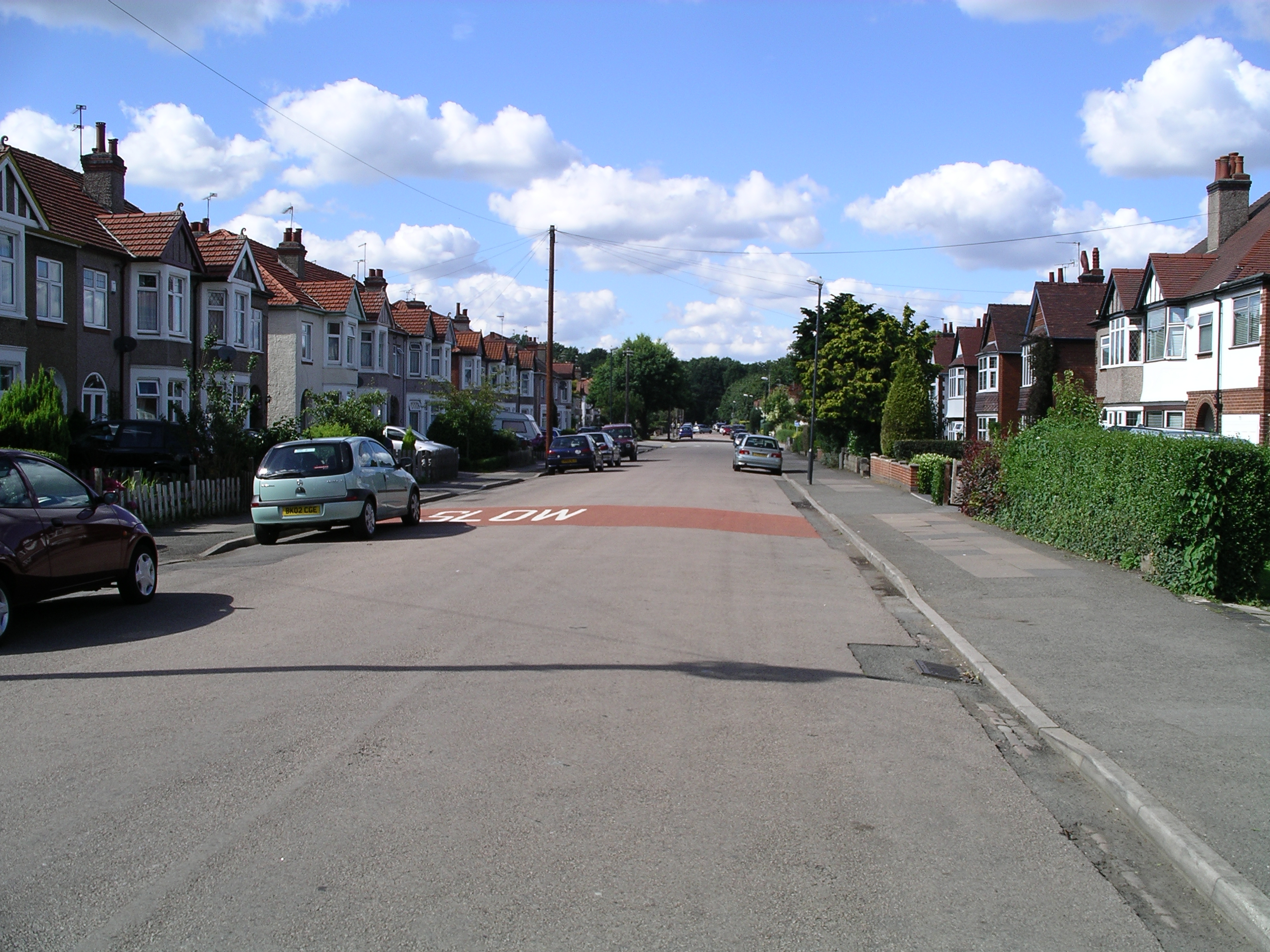 Photo of the north portion of the road Green Lane, in the district of Green Lane, Coventry, England. The view is towards the War Memorial Park.